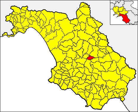 Locator map of the municipality of Roscigno (red) within the Province of Salerno